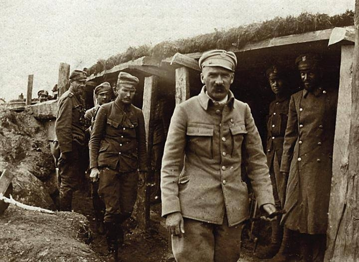 Józef Piłsudski during battle of Rudka Miryńska (August 1916) or battle of Kostiuchnówka (4-6 July 1916)